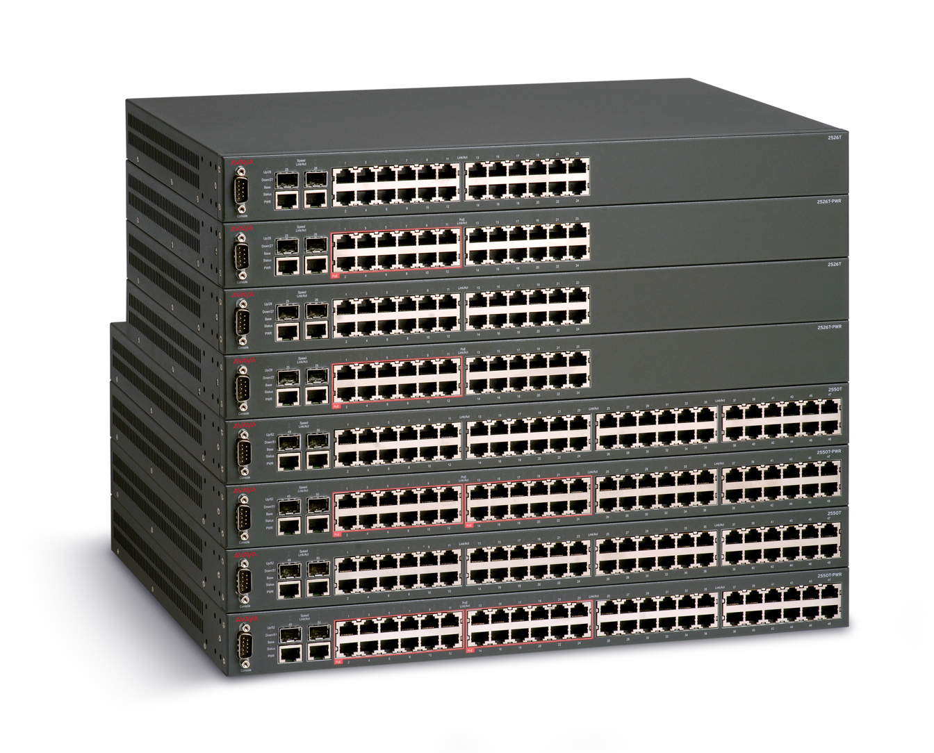 Stack of Avaya ERS-2500 switches